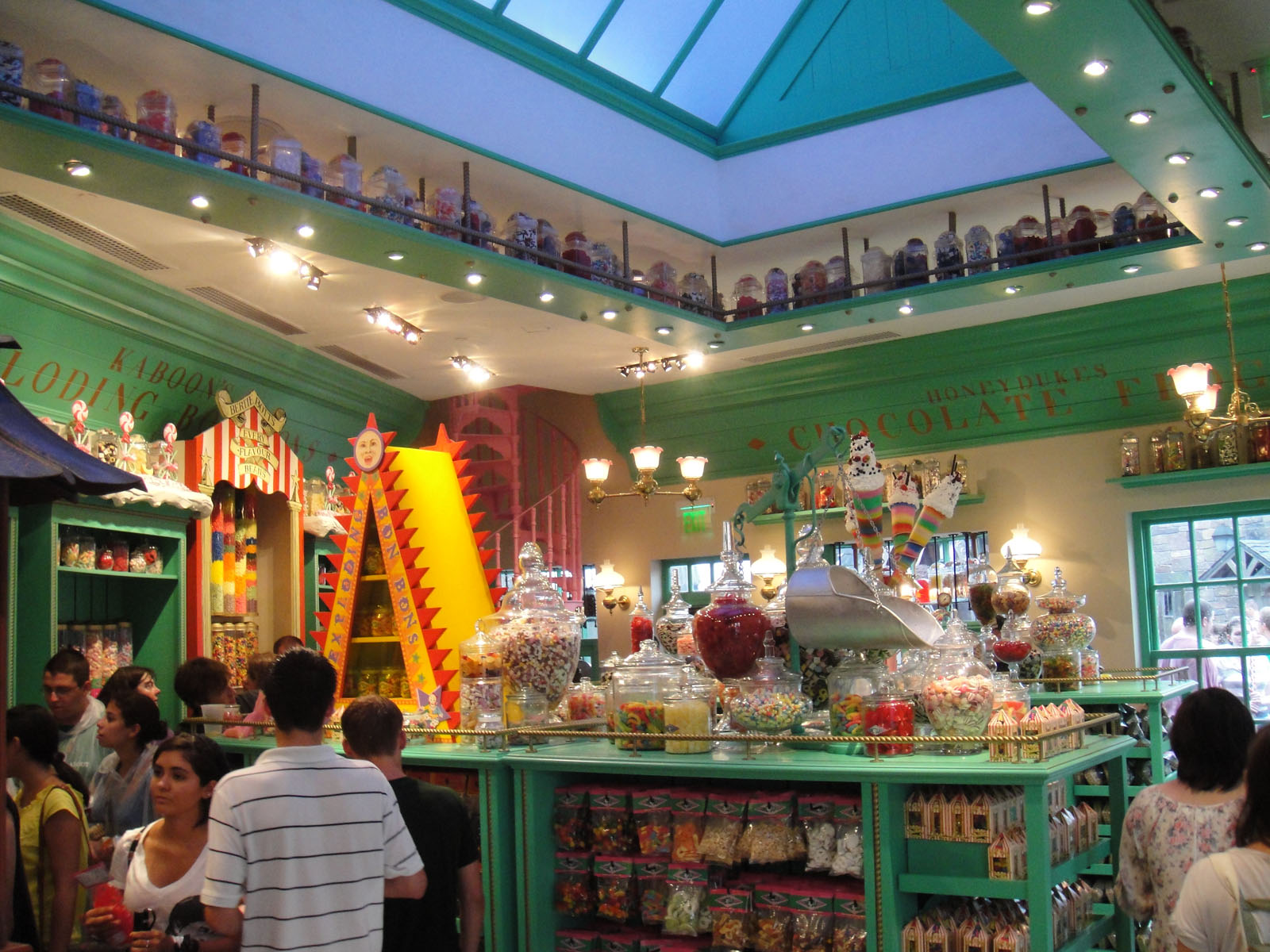 Wizarding World of Harry Potter - inside Honeydukes Sweets Shop